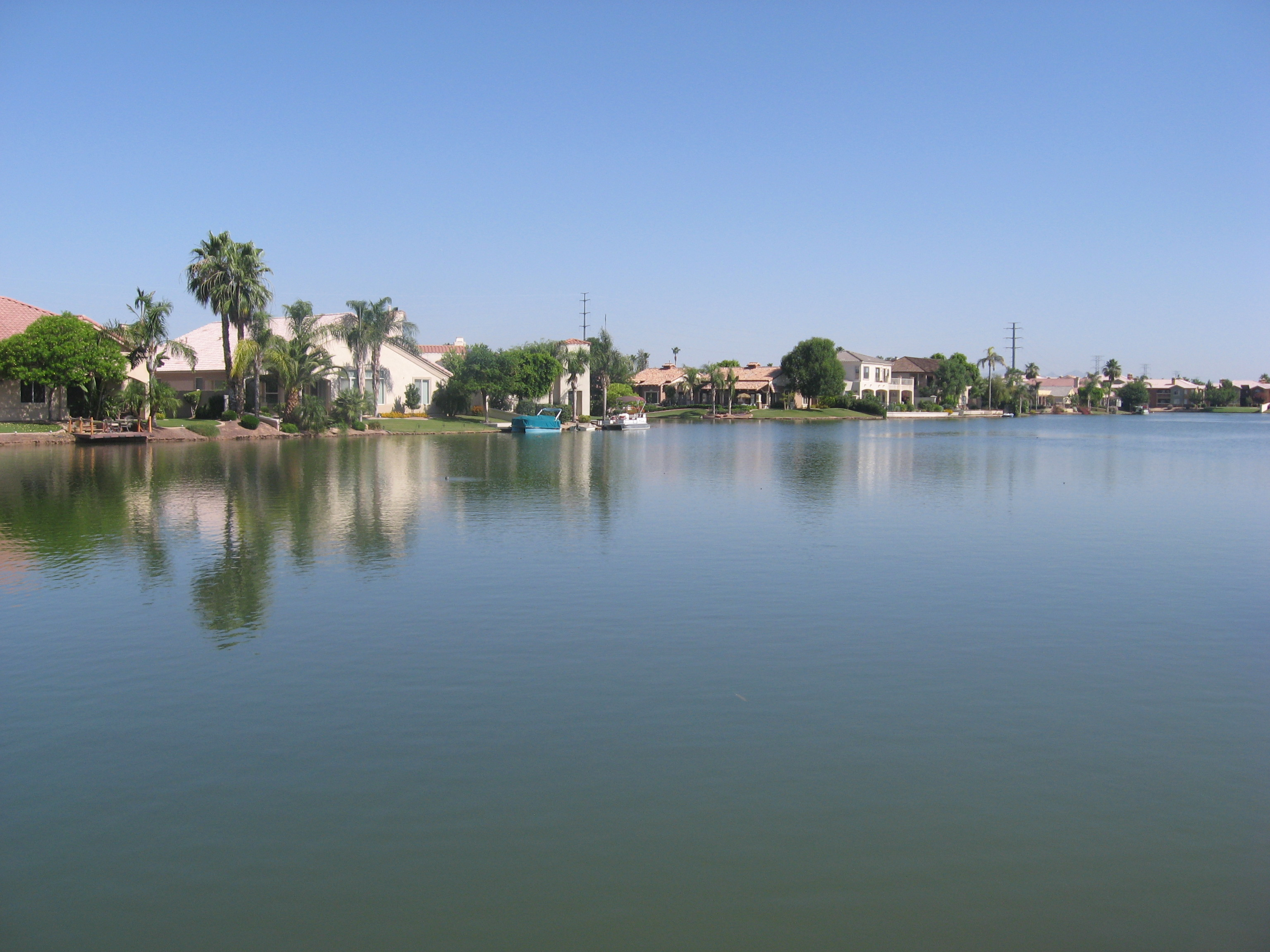 Picture of lake front in Val Vista Lakes in Gilbert, Arizona, USA